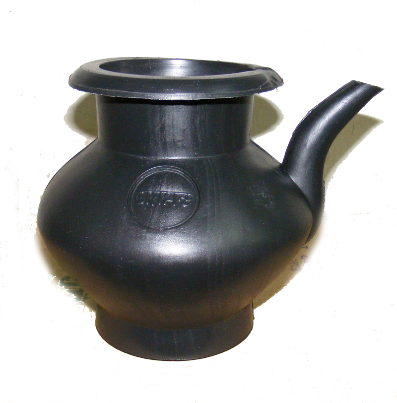 This is one kind of water crate, in Bengali it is called Badna.